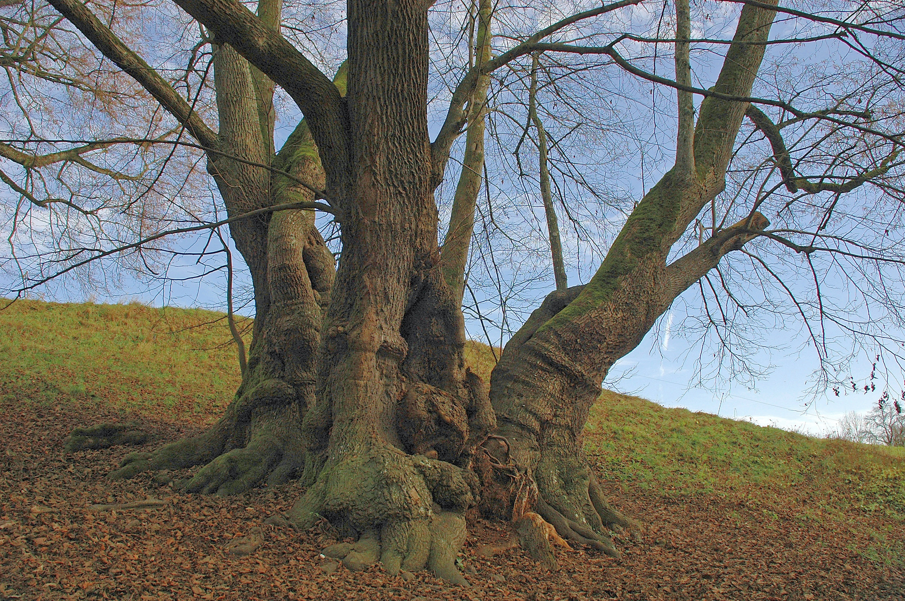 Tassilolinde in Wessobrunn in Autumn